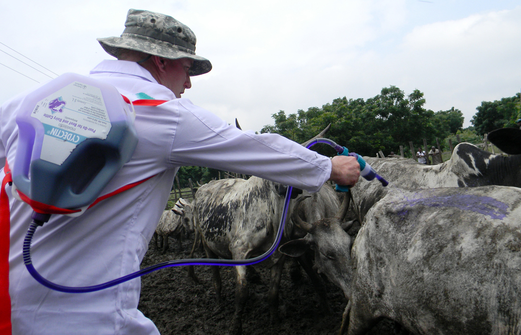 Chief Warrant Officer 2 Bryan Davis, a food safety officer from the U.S. Army National Guard’s 949th Veterinary Company, sprays a cow with deworming formula July 16 while treating cattle at a humanitarian civic assistance site in Ablekuma-Matheko, Ghana, as part of MEDFLAG 11. Photo by Sgt. Elisebet Freeburg, 143d Sustainment Command (Expeditionary), U.S. Army Reserve To learn more about U.S. Army Africa visit our official website at Official Twitter Feed: Official Vimeo video channel: Join the U.S. Army Africa conversation on Facebook